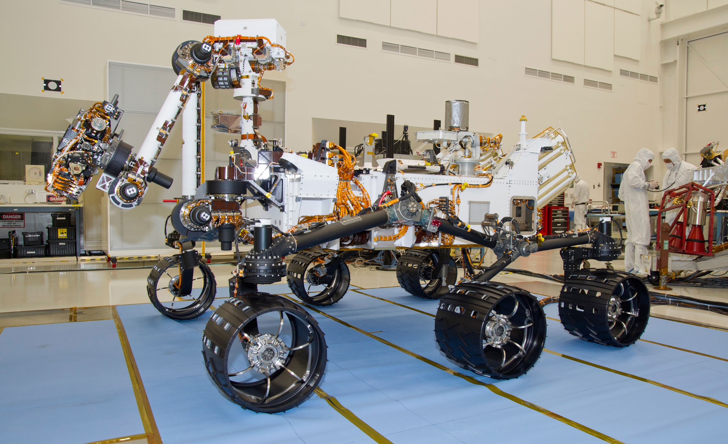 Mars Rover Curiosity, Left Side View This photograph of the NASA Mars Science Laboratory rover, Curiosity, was taken during mobility testing on June 3, 2011. The location is inside the Spacecraft Assembly Facility at NASA's Jet Propulsion Laboratory, Pasadena, Calif. Preparations are on track for shipping the rover to NASA's Kennedy Space Center in Florida in June and for launch during the period Nov. 25 to Dec. 18, 2011. JPL, a division of the California Institute of Technology in Pasadena, manages the Mars Science Laboratory mission for the NASA Science Mission Directorate, Washington. This mission will land Curiosity on Mars in August 2012. Researchers will use the tools on the rover to study whether the landing region has had environmental conditions favorable for supporting microbial life and favorable for preserving clues about whether life existed.